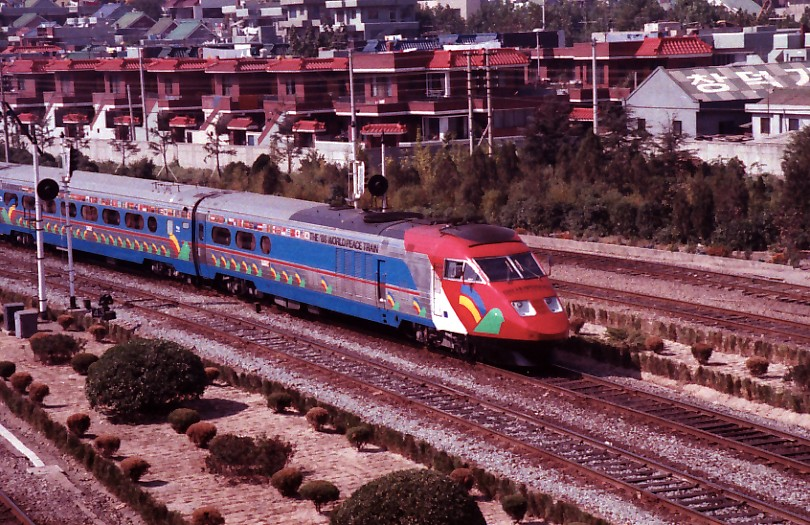 The '88 world Peace Train of Korean National Railroad. Push-pull type Saemaeul DMU, at Dong-Daegu station, Gyeongbu Line.